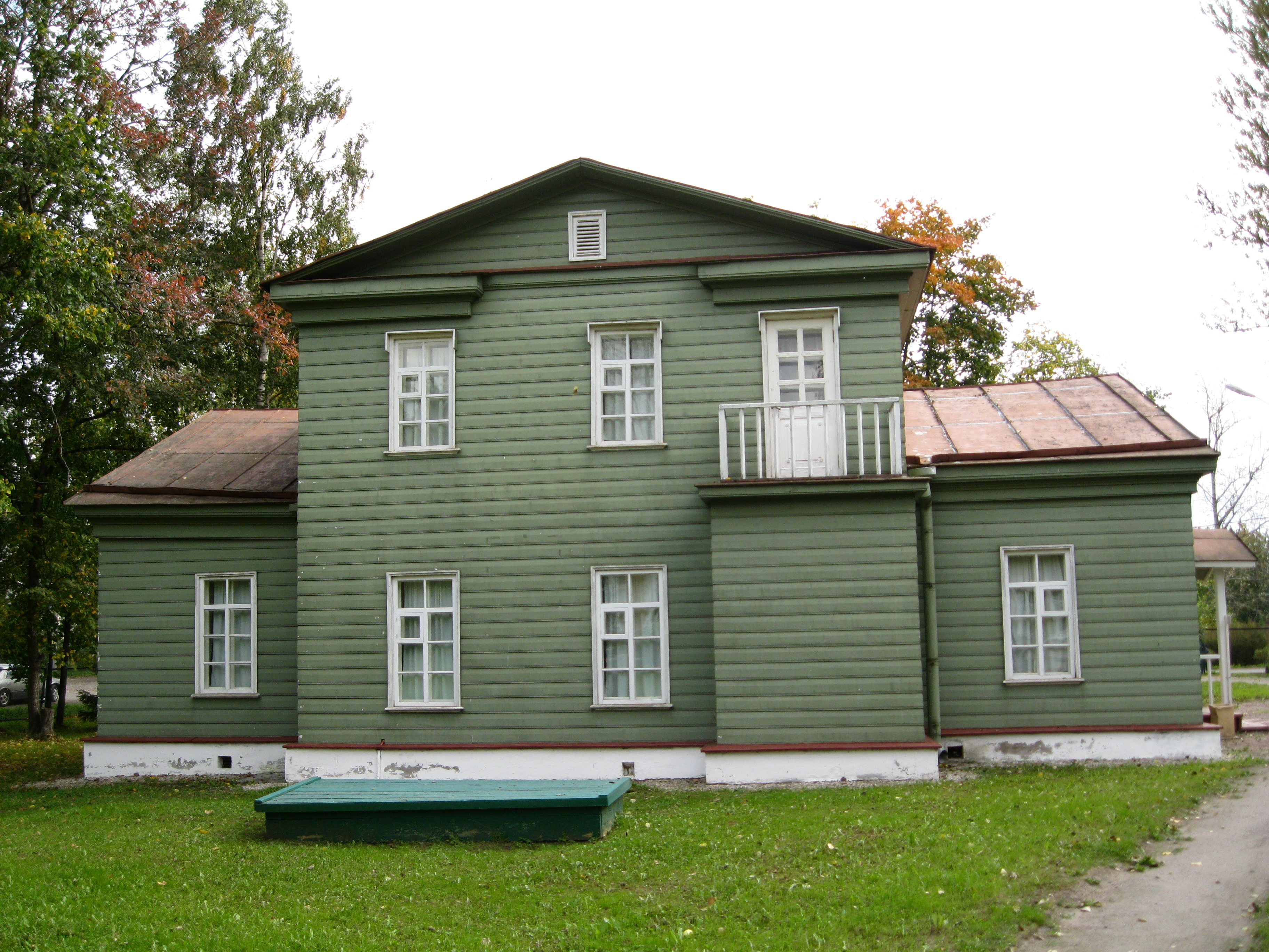 Russian poet Nekrasov museum in Chudovo, Russia